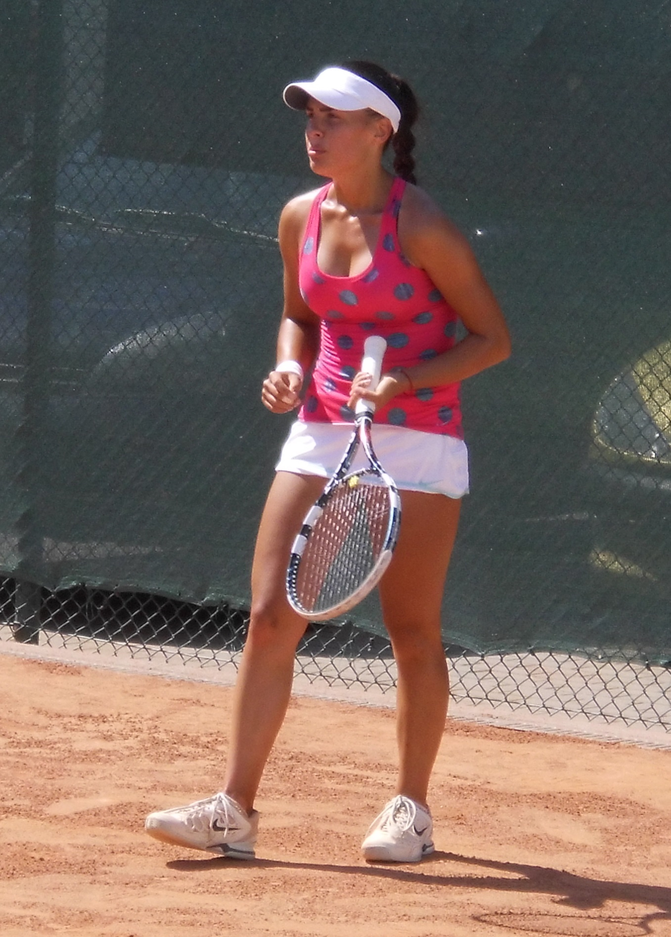 Petra Uberalová during quarterfinal match at 2014 Bella Cup